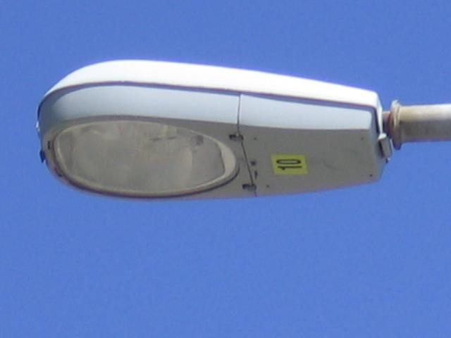 History of street lighting: General Electric M400A3 (1997–present) Rare 100 watt version found on the Tobin Bridge in Chelsea, Massachusetts